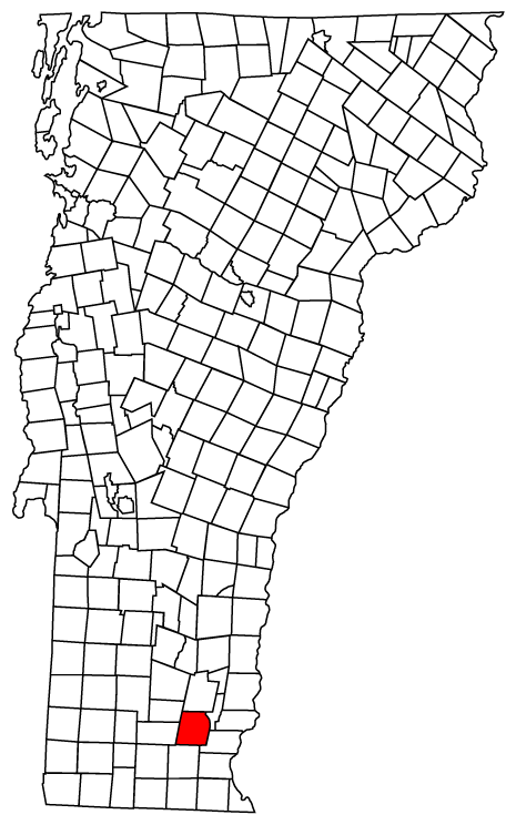 Map of Vermont towns with Newfane highlighted.